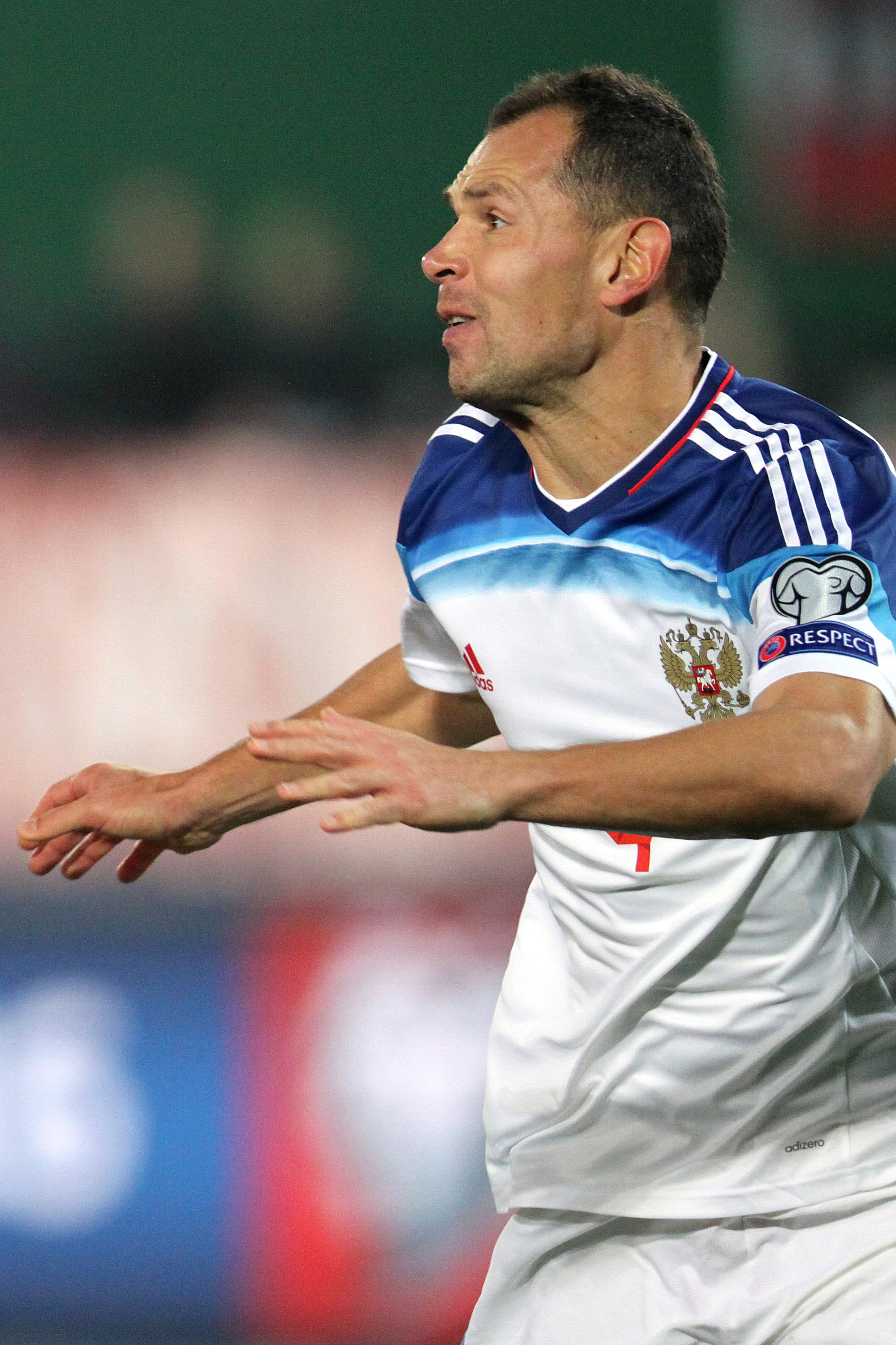 UEFA Euro 2016 qualifying: Austria vs. Russia (1:0 / 0:0) at 2014-11-15 in the Ernst-Happel-Stadion in Vienna. – The photo shows Sergei Ignashevich (Russia).